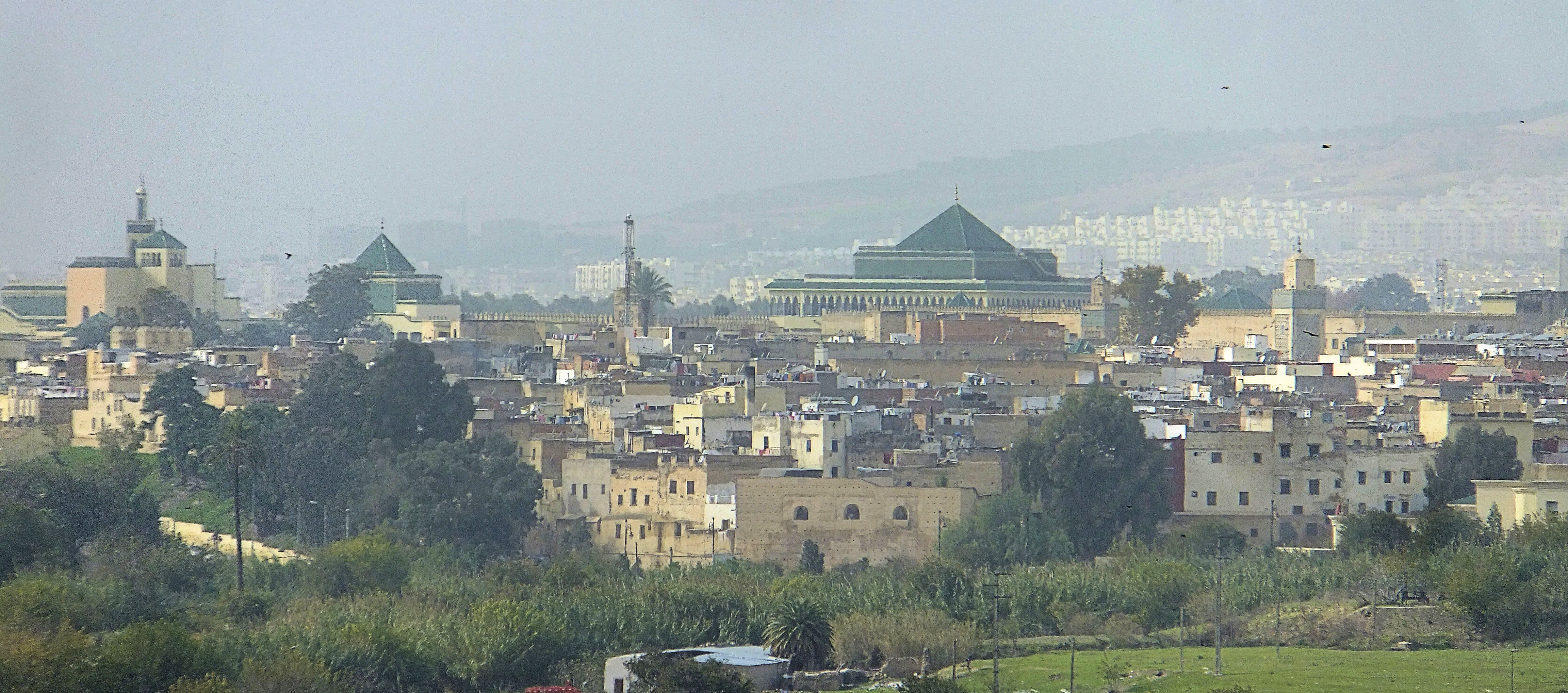 Distant view of Fes Jdid and the Royal Palace, seen from the east. Visble landmarks, from left to right: Dar Ayad al-Kebira (tall palace structure with two pyramidal green cupolas) and the minaret of Lalla Mina Mosque behind it (mostly obscured by the palace structure); an unidentified minaret inside the palace, obscured by an antenna and a palm tree in front; a prominent and central palace structure (the huge green pyramid roof); the minaret of the Lalla ez-Zhar Mosque (just right of the large pyramidal roof, next to a tree, less prominent than the other minarets); and the minaret of the Hamra Mosque.